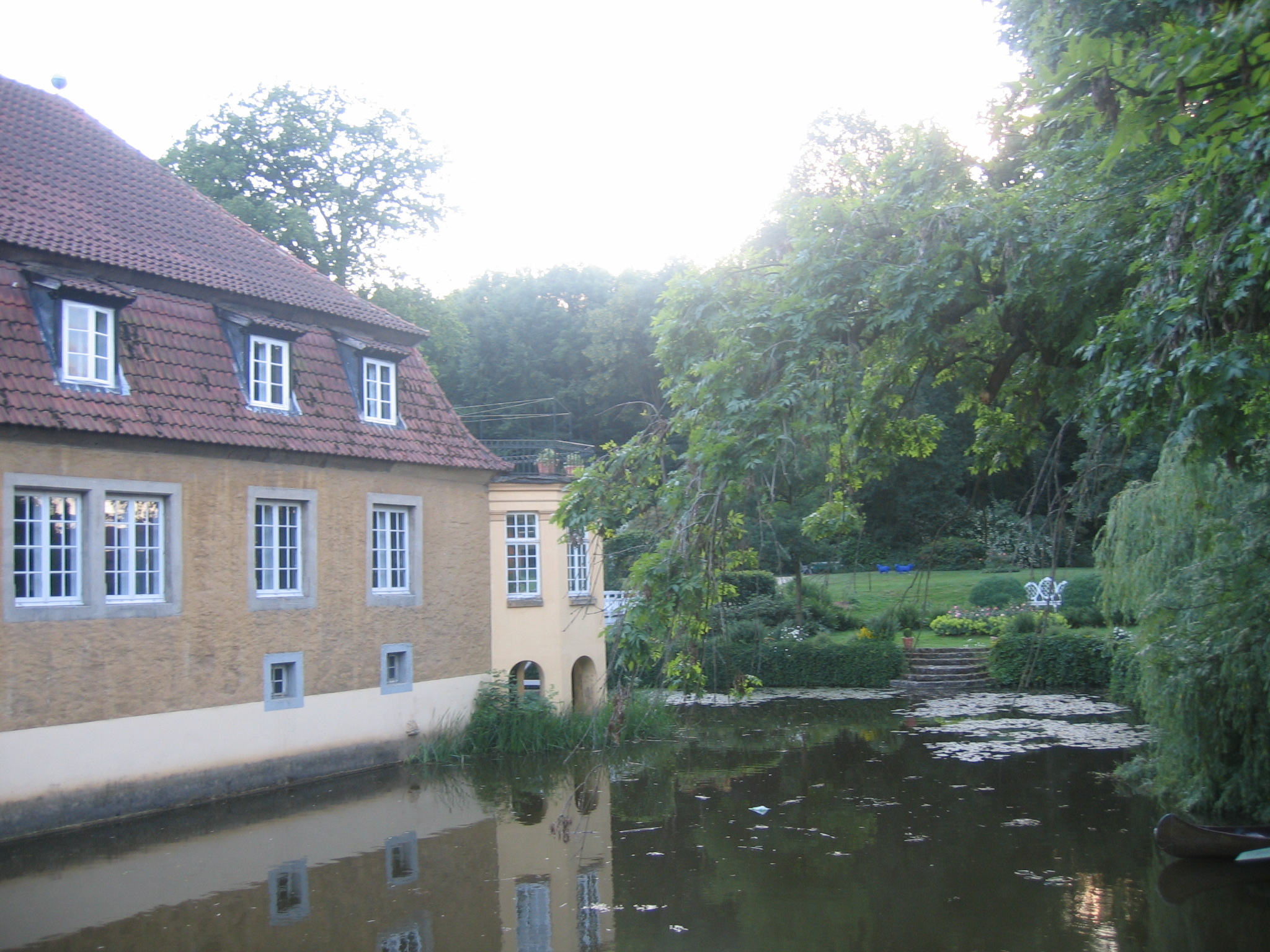 Oberbehme Castle in Kirchlengern, District of Herford, North Rhine-Westphalia, Germany.